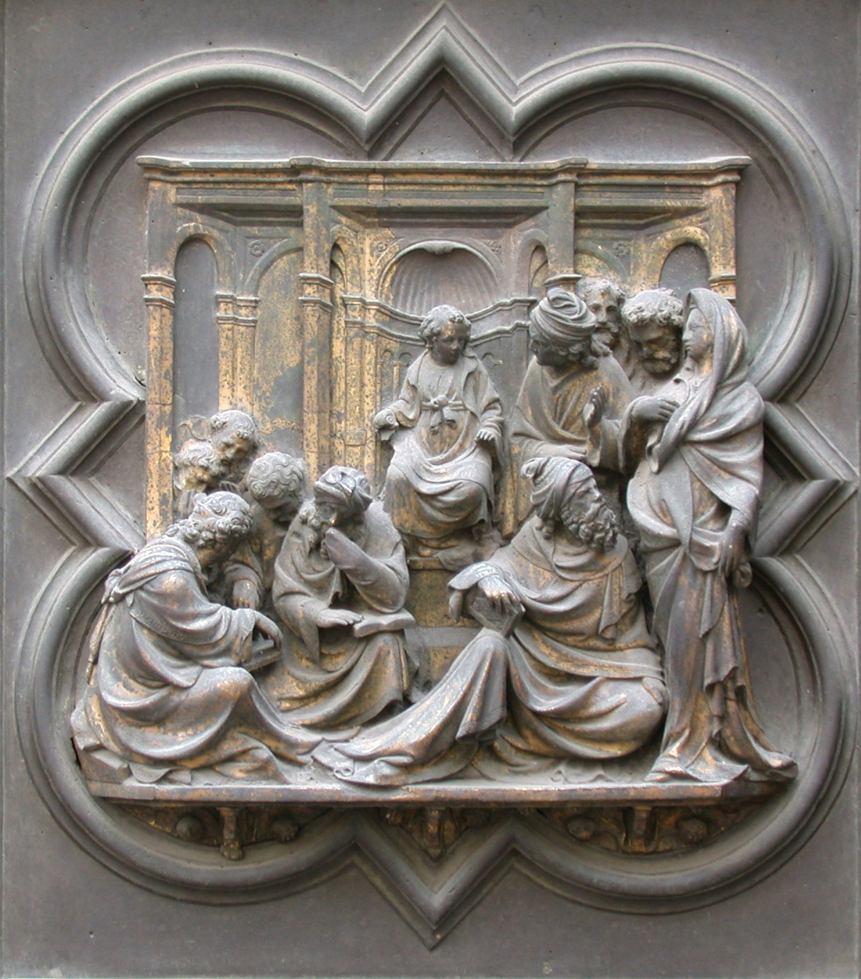 The child Jesus disputing in the temple, depiction inside a quatrefoil, Florence.